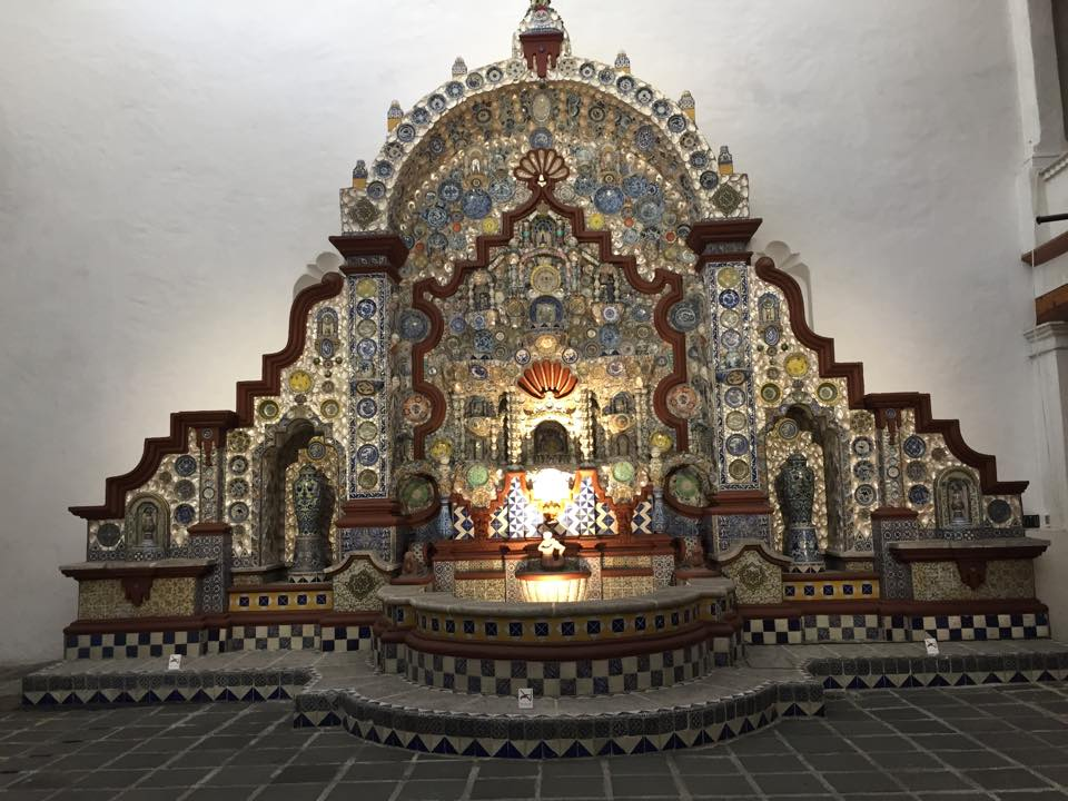 broken link